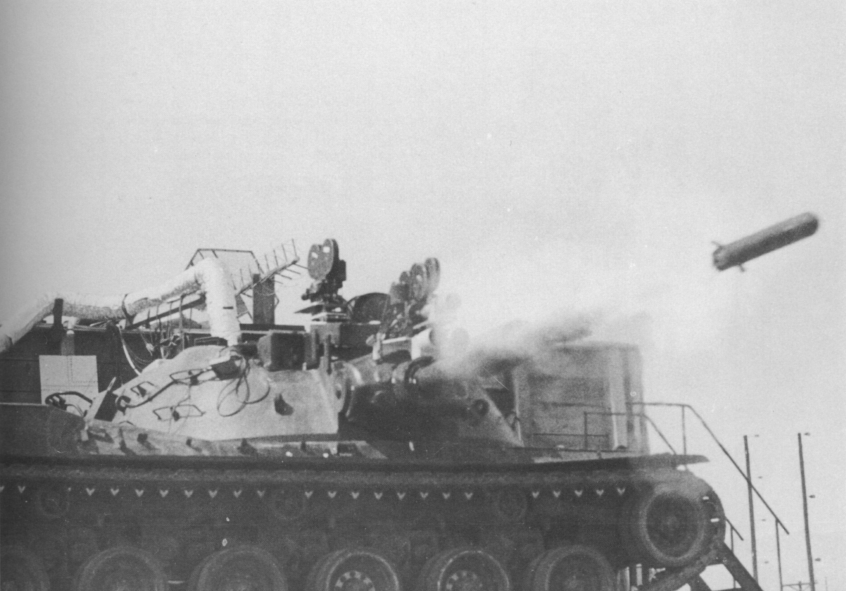 MBT-70 Shillelagh rocket fire.